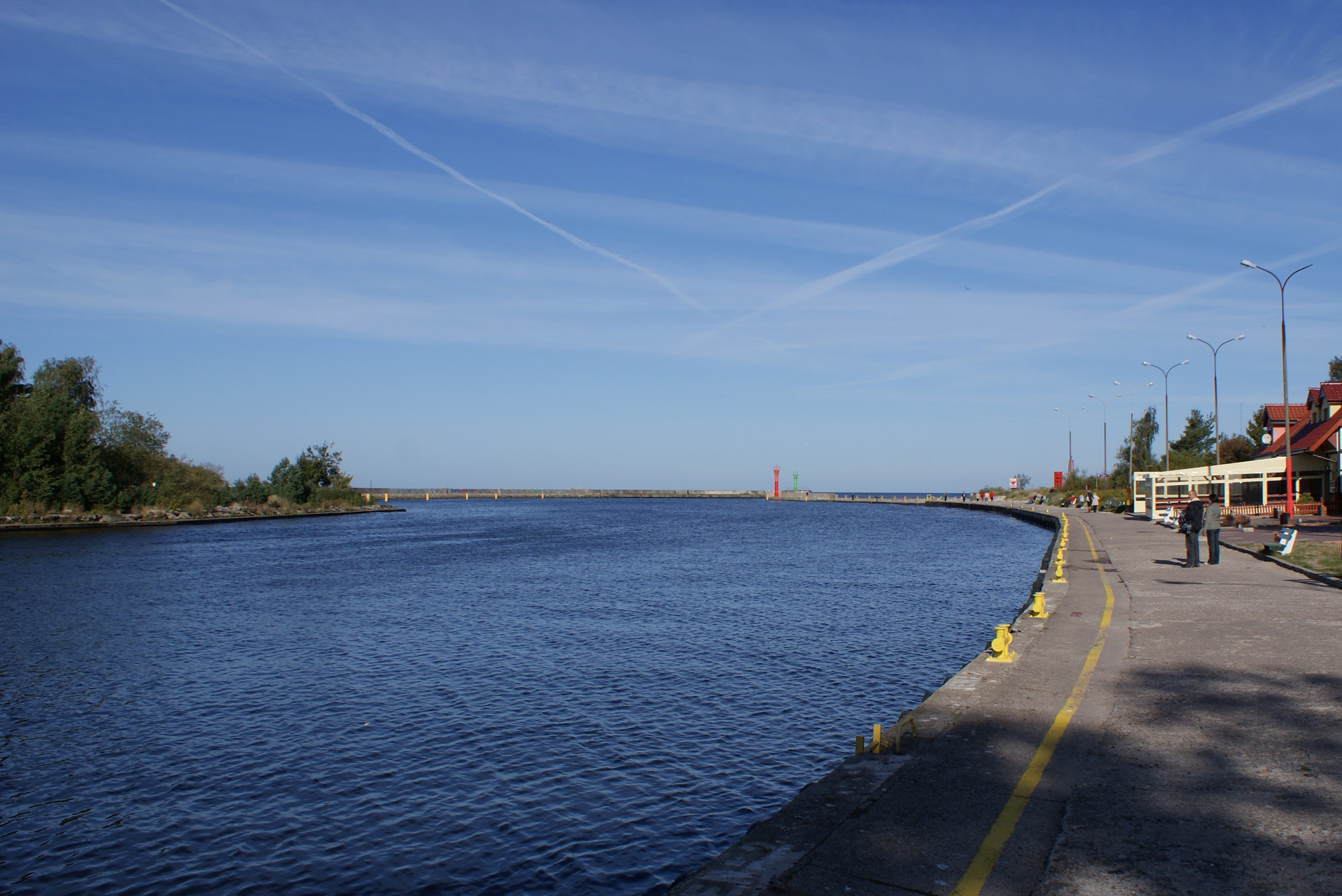 Entrance canal of the Port of Mrzeżyno, estuary of the Rega river